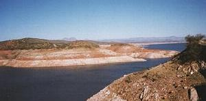 San Carlos Lake — a reservoir behind Coolidge Dam on the Gila River. Located on the San Carlos Apache Indian Reservation, in Gila County, Arizona.